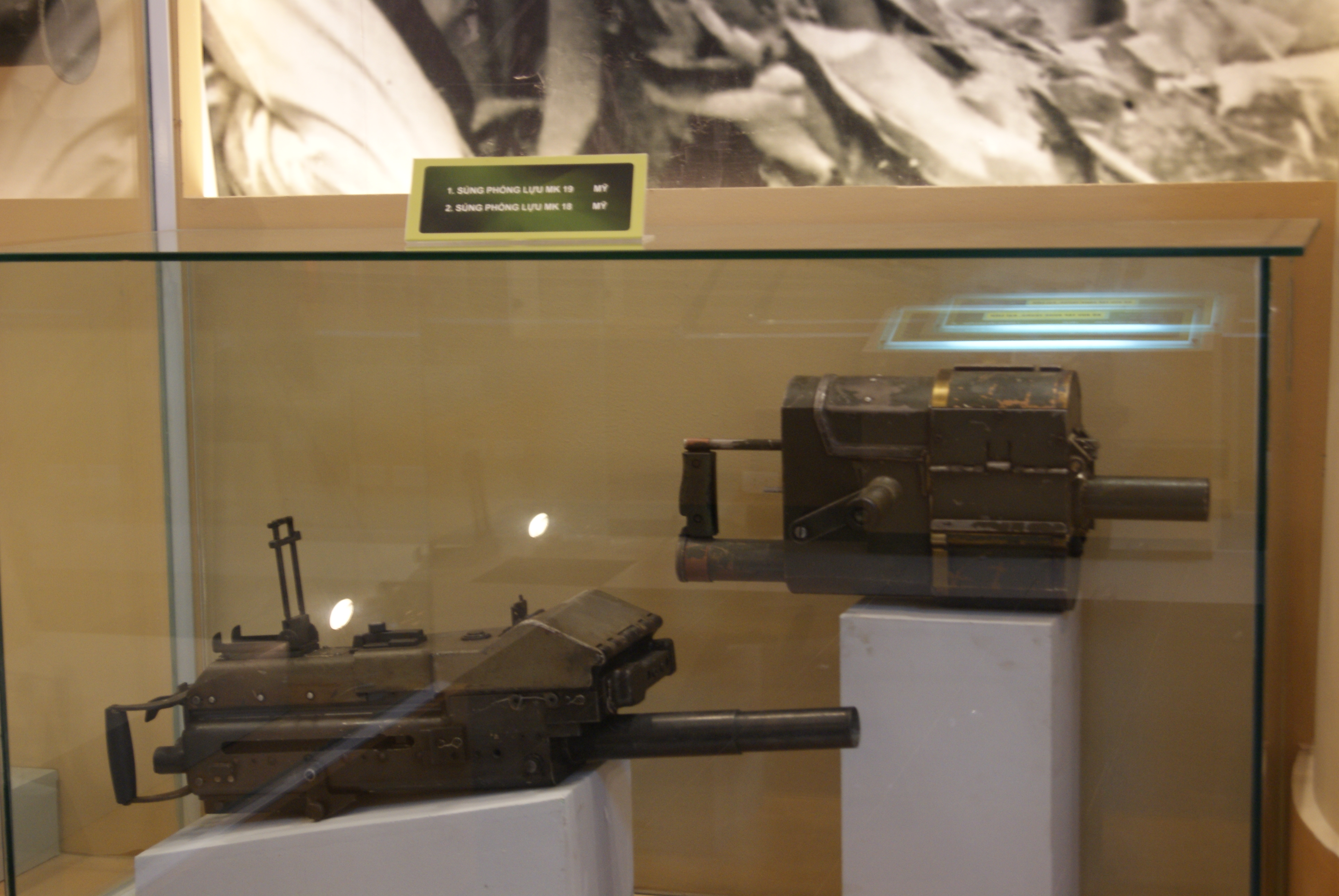 Mk18